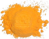 Own Camera